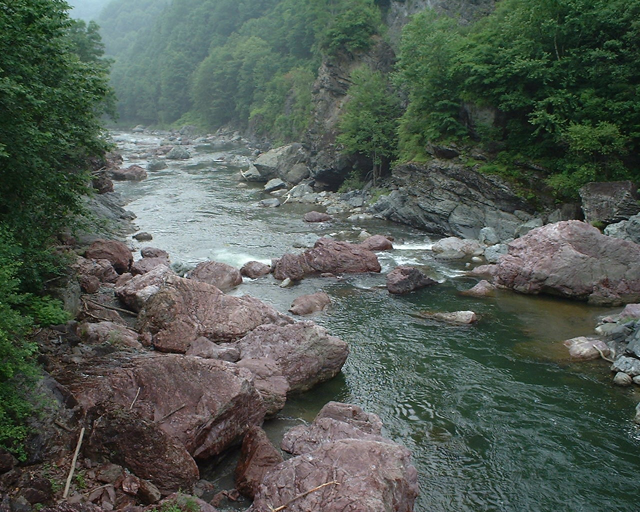 Akaiwa-Seigan gorge of Mu River in Shimukappu, Hokkaido. Fujifilm Finepix 1500